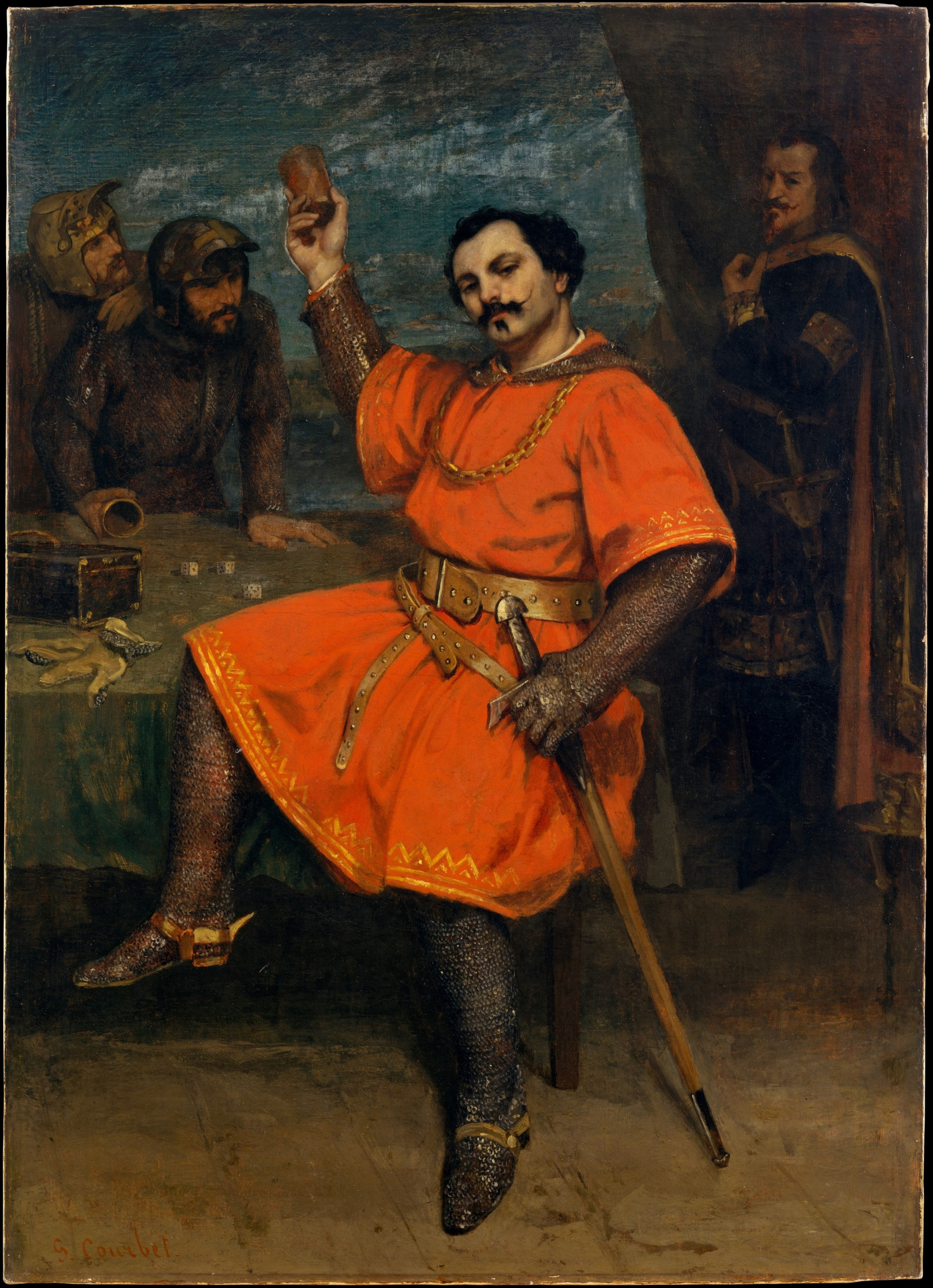 Portrait of Louis Guéymard in the title role of Giacomo Meyerbeer's opera Robert le diable, in the last scene of Act 1 in which Robert gambles with dice, loses his entire estate, and sings the aria "L’or est une chimère" (Gold is but an illusion).